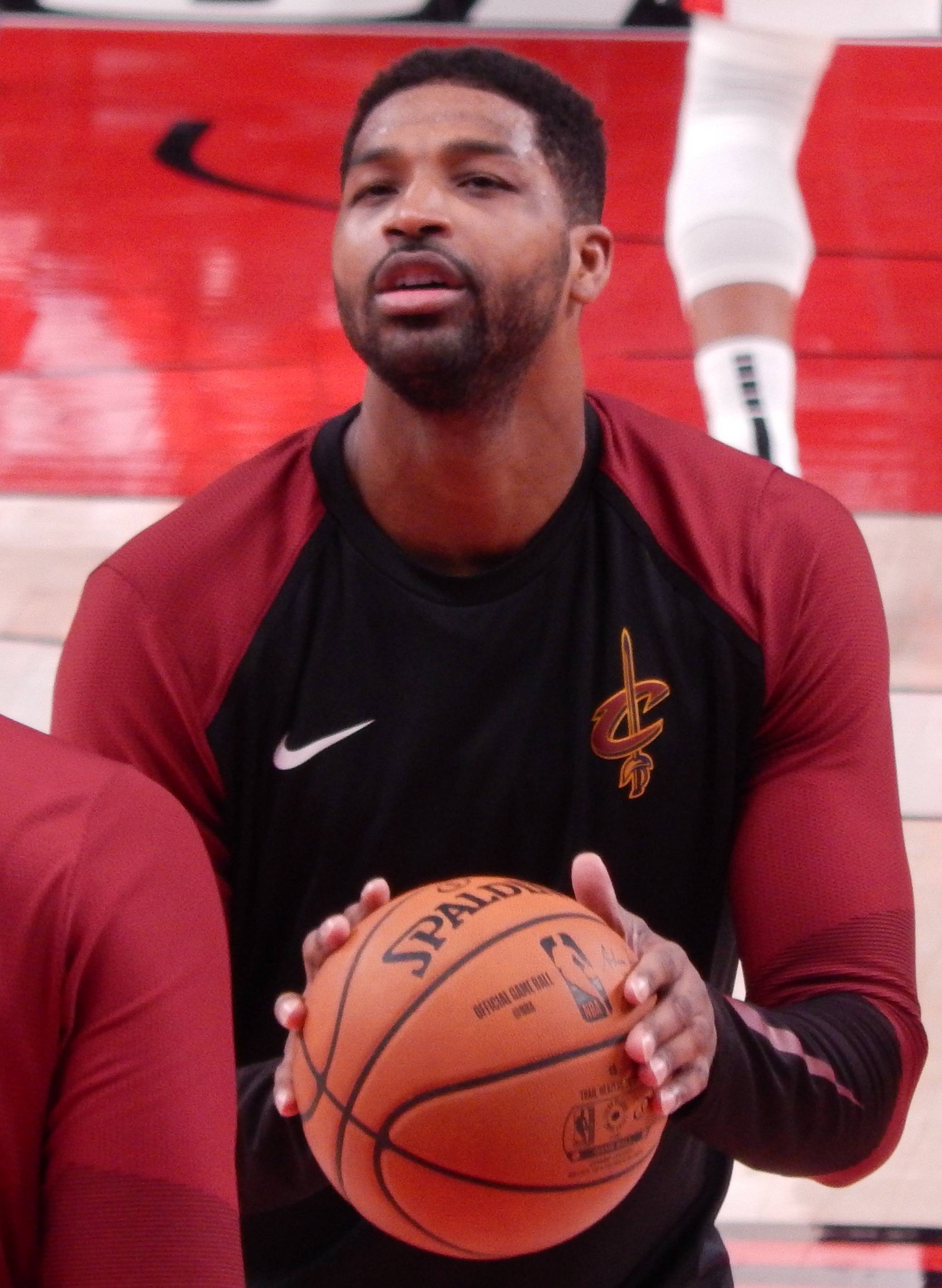 Tristan Thompson #13 of the Cleveland Cavaliers shoots the ball against the Portland Trail Blazers on January 16, 2019 at Moda Center in Portland, Oregon.